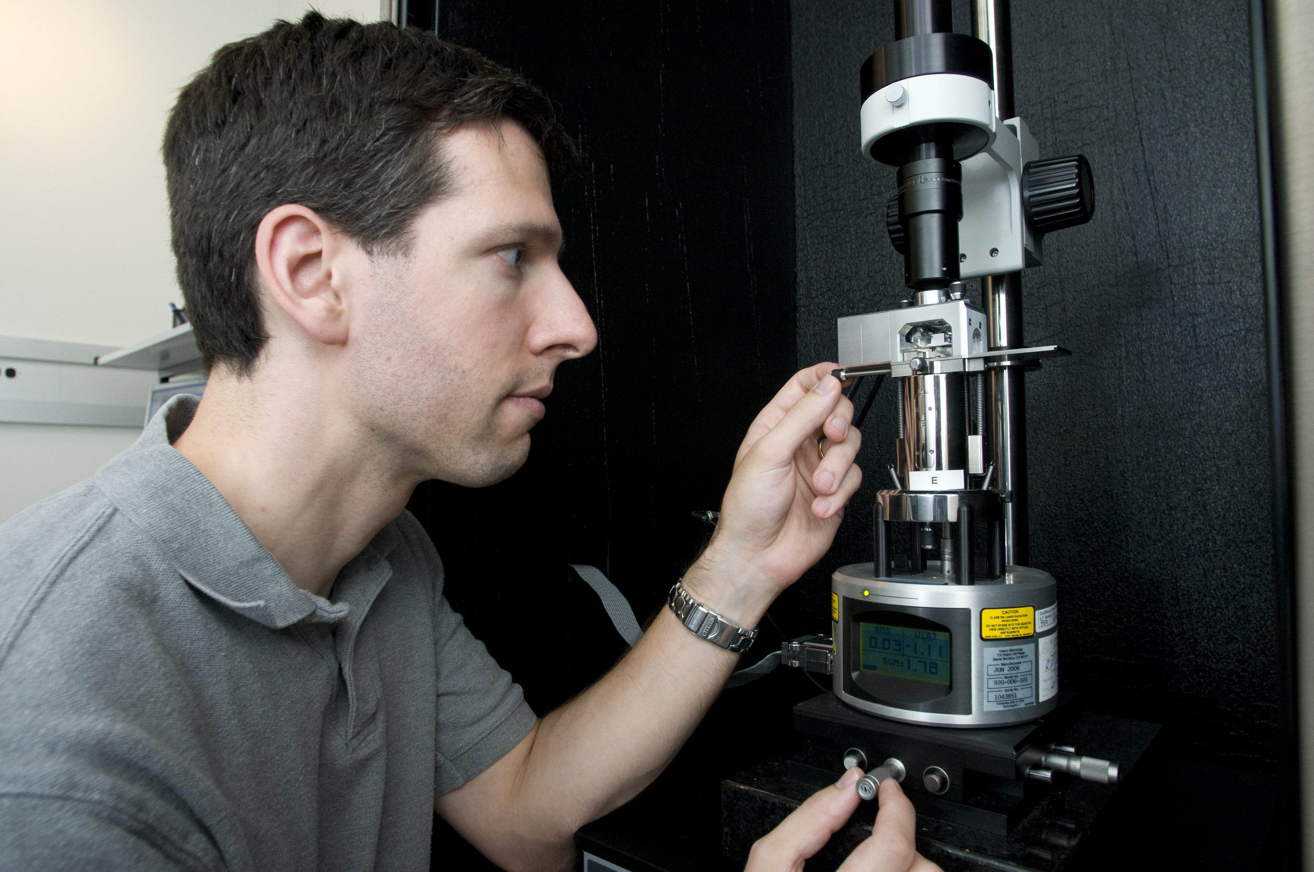 This instrument performs atomic force microscopy to measure surface characteristics and imaging for semiconductor wafers, lithography masks, magnetic media, CDs/DVDs, biomaterials, optics, among a multitude of other samples. (Pictured: Seth Darling, scientist in the Electronic & Magnetic Materials & Devices group.) The Center for Nanoscale Materials at Argonne National Laboratory is a joint partnership between the U.S. Department of Energy (DOE) and the State of Illinois, as part of DOE's Nanoscale Science Research Center program.